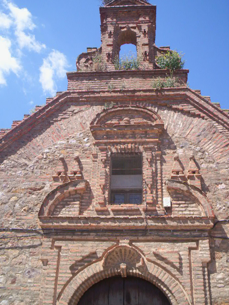 Fachada de la Ermita del Santo Cristo de la Caridad (Chillón, Ciudad Real)